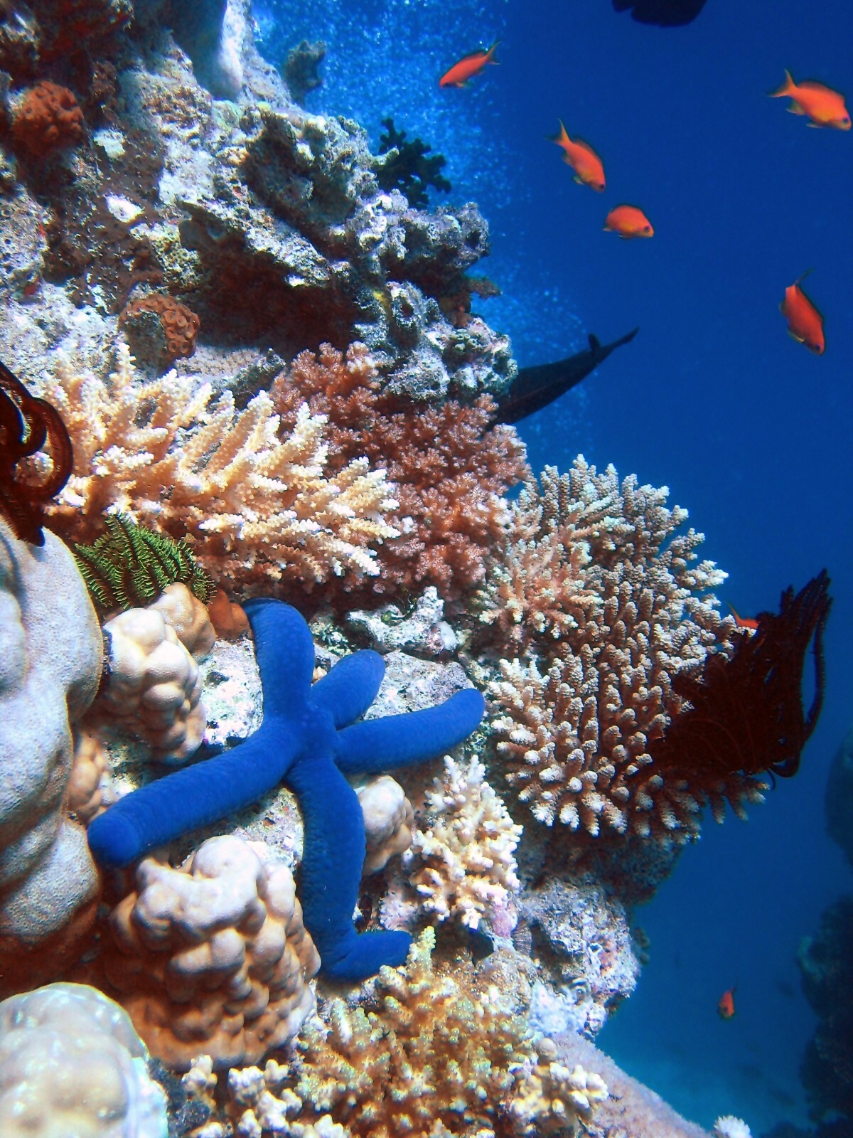 A Blue Starfish (Linckia laevigata) resting on hard Acropora and Porites corals (one can also see Anthiinae fish and crinoids). Lighthouse, Ribbon Reefs, Great Barrier Reef.